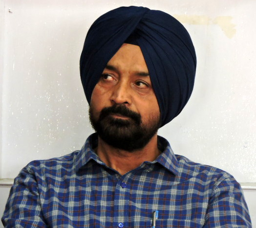 Gurtej Koharwala Punjabi Language poet ,Punjab,India